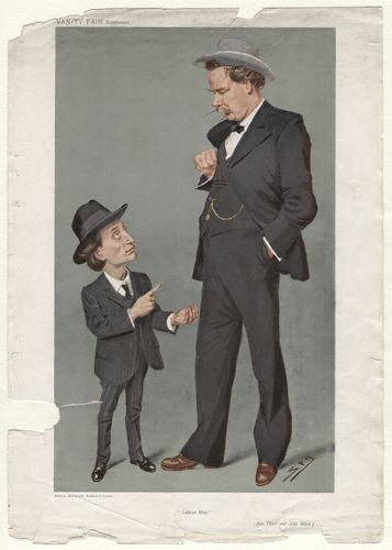 Caricature of Ben Tillett and John Ward. Caption read "Labour Men".